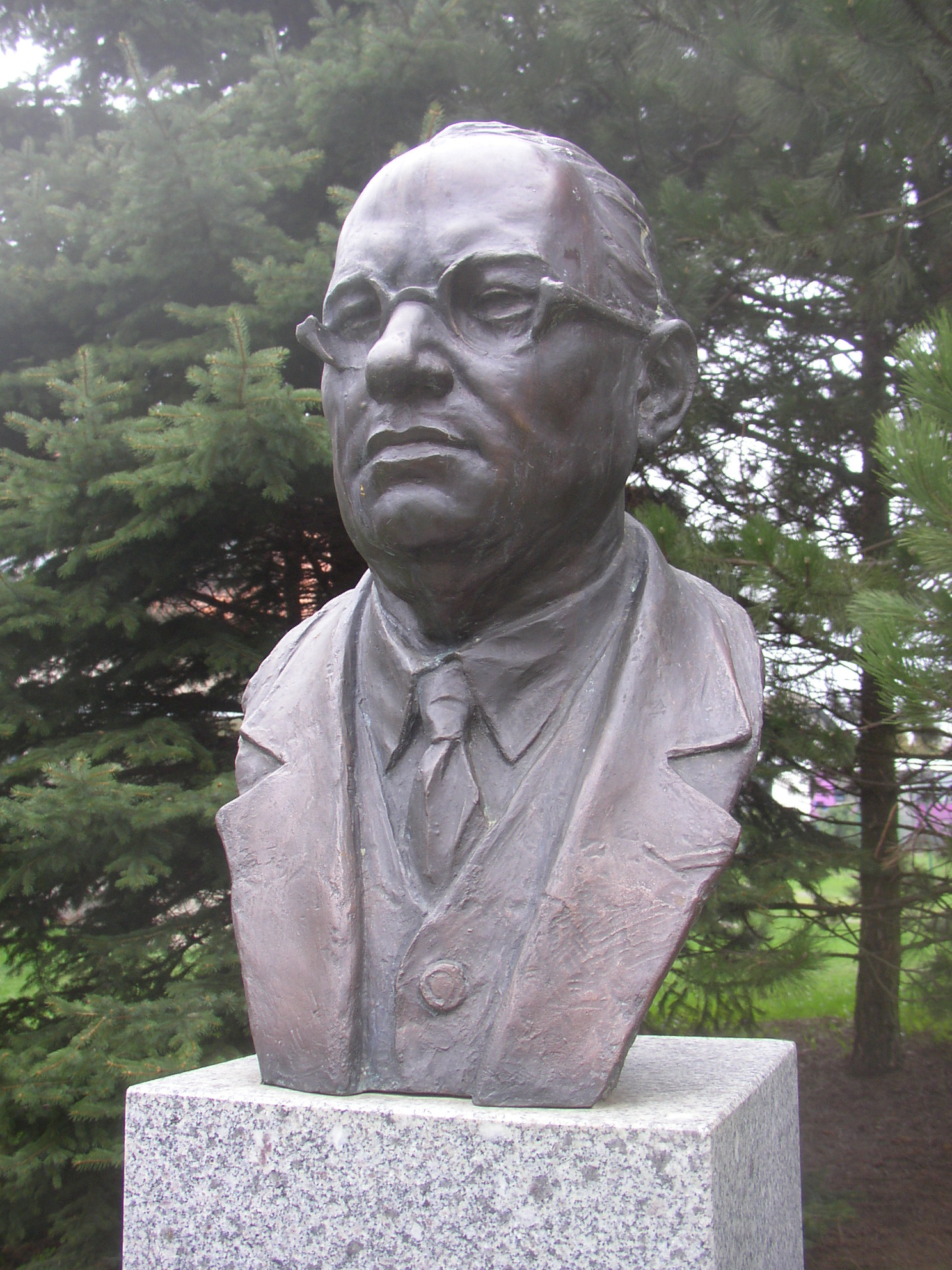 Hrusice, Prague-East District, Czech Republic. Bust of Josef Lada from 1998 in small park in centre of the village.